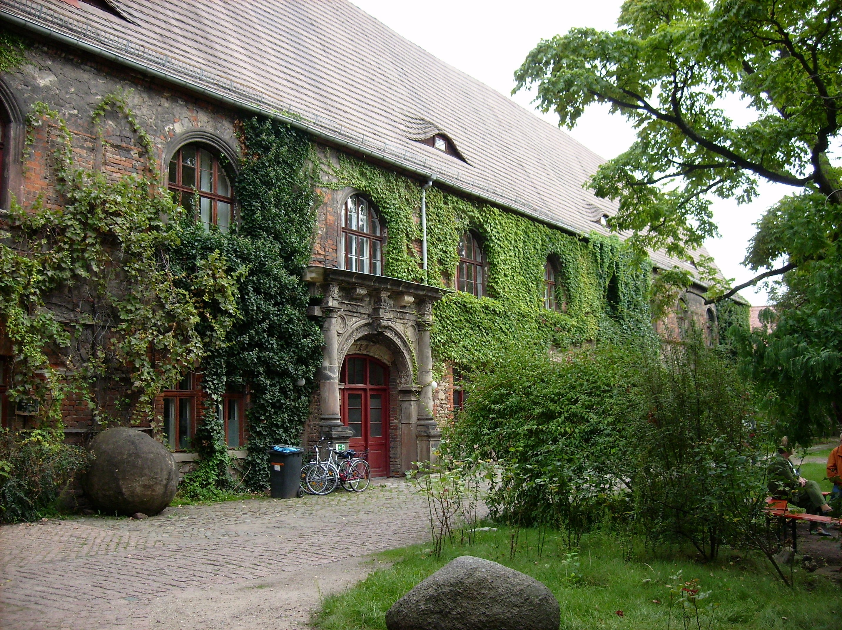 In the courtyard of the Neue Residenz in Halle/Saale (Saxony-Anhalt)